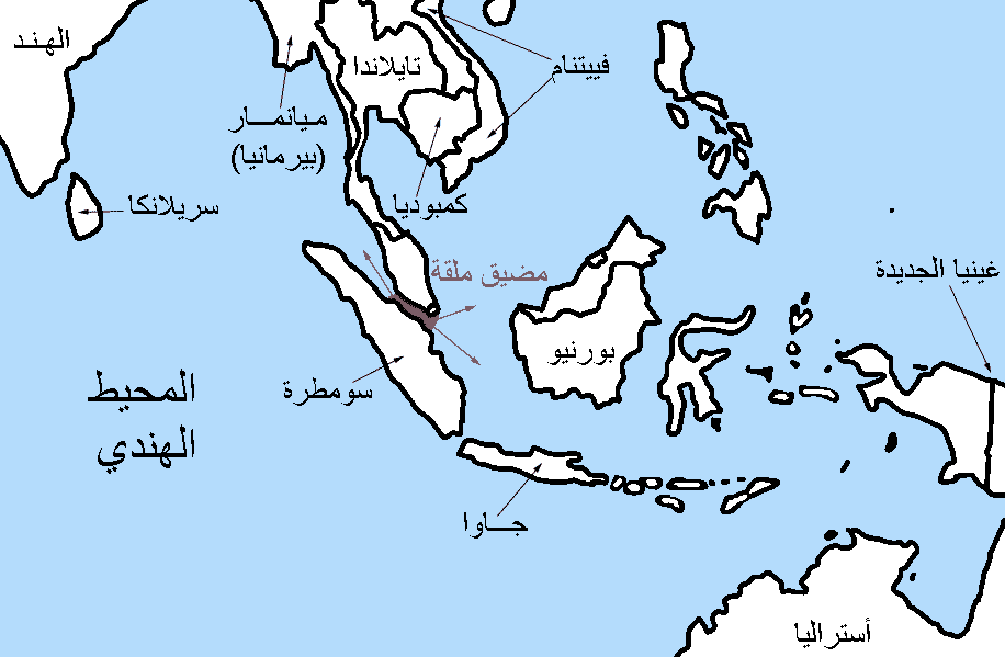 translated to arabic by User:Zakaria55